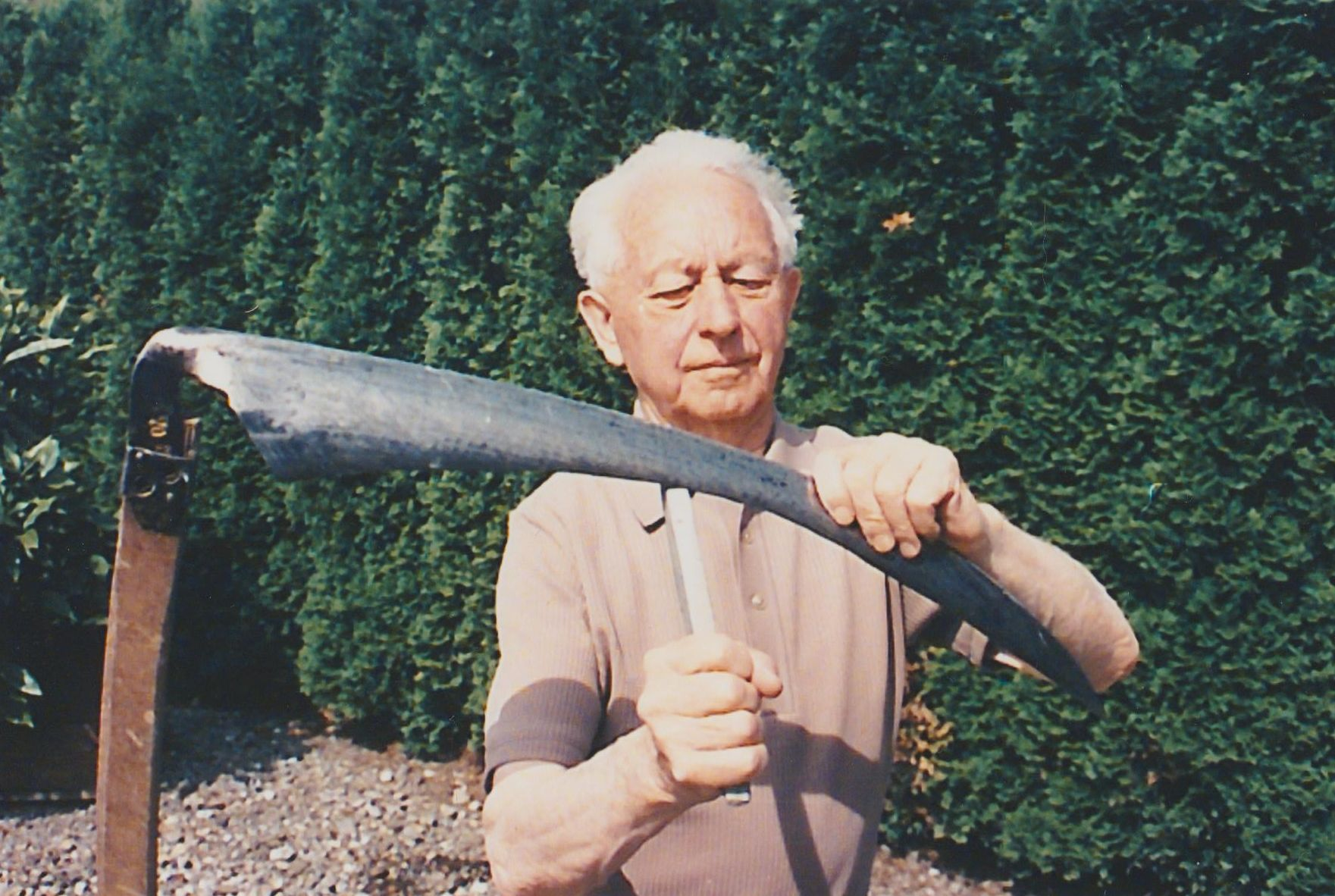 Whetstone-production in the Schwarzachtobel (in Schwarzach, Vorarlberg, Austria). Edwin Troll grinding a scythe.